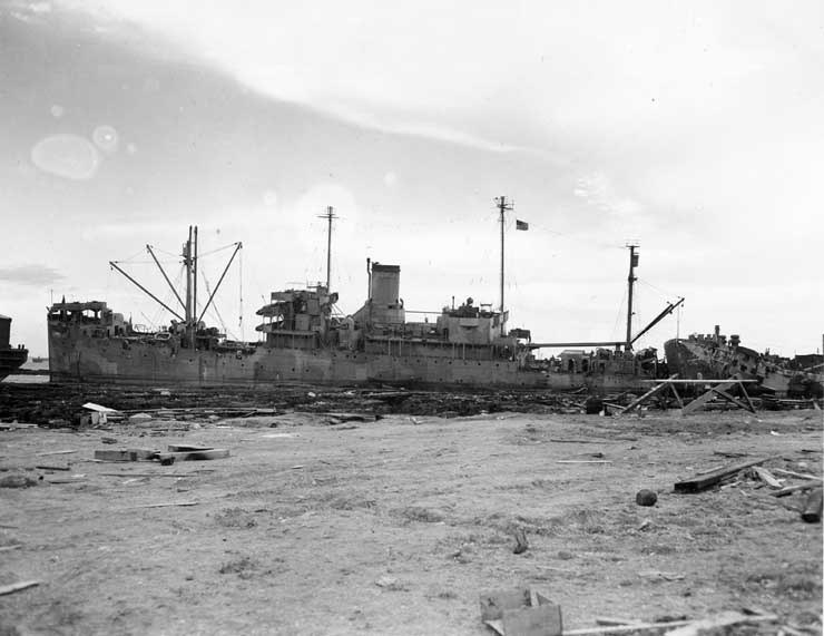 USS Ocelot (IX-110) aground in Buckner Bay, Okinawa, after Typhoon Louise ravaged that port in October 1945. Photographed in November 1945. Her stern was cut off when USS Nestor (ARB-6), visible to the right, crashed into her during the storm.